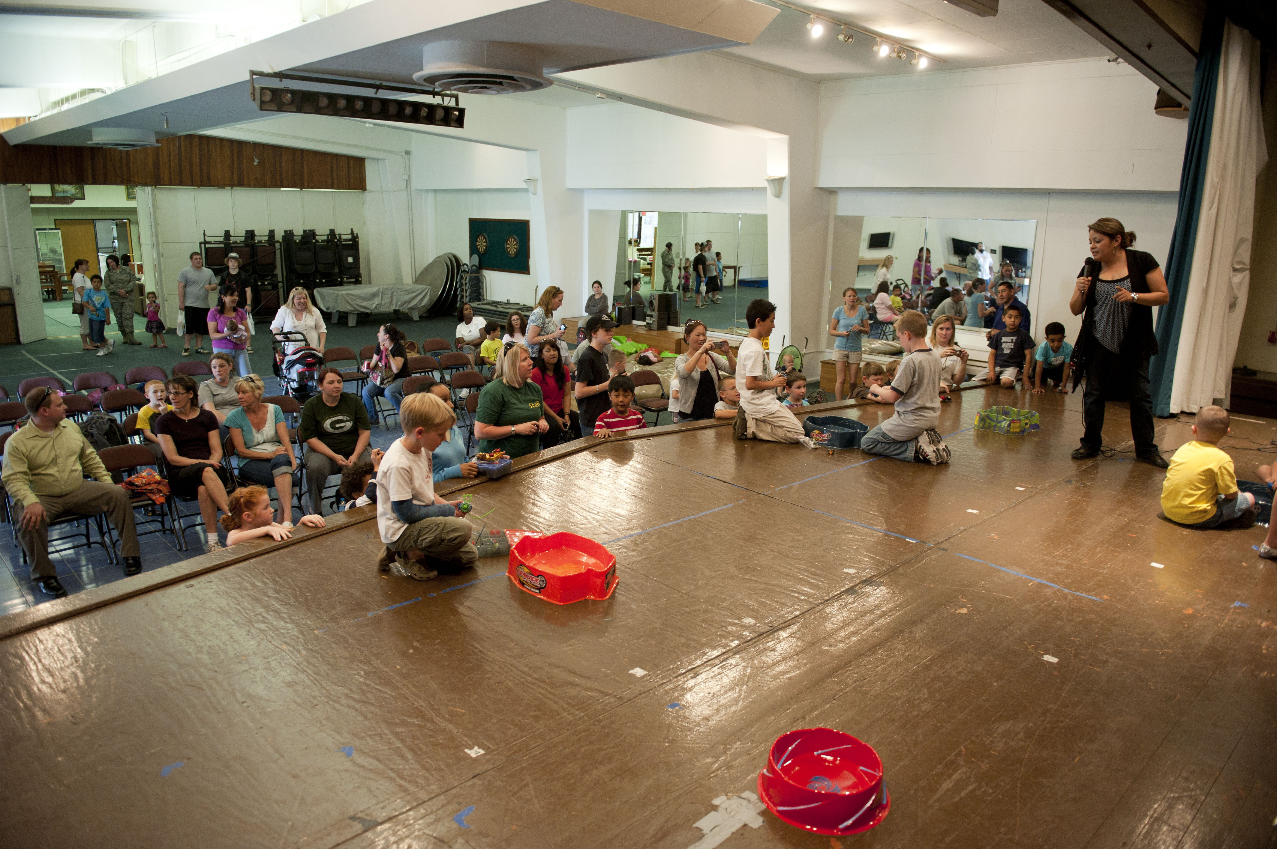 Families gather in the community center for the Beyblades Battle Tournament April 18, 2012, at Incirlik Air Base, Turkey. A Beyblade is a spinning top that is launched into an arena with another Beyblade, and the last top spinning wins. The double elimination tournament was open to elementary-age children. The top three competitors in each age bracket received prizes.